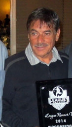 Peter Pinizzotto in 2014.